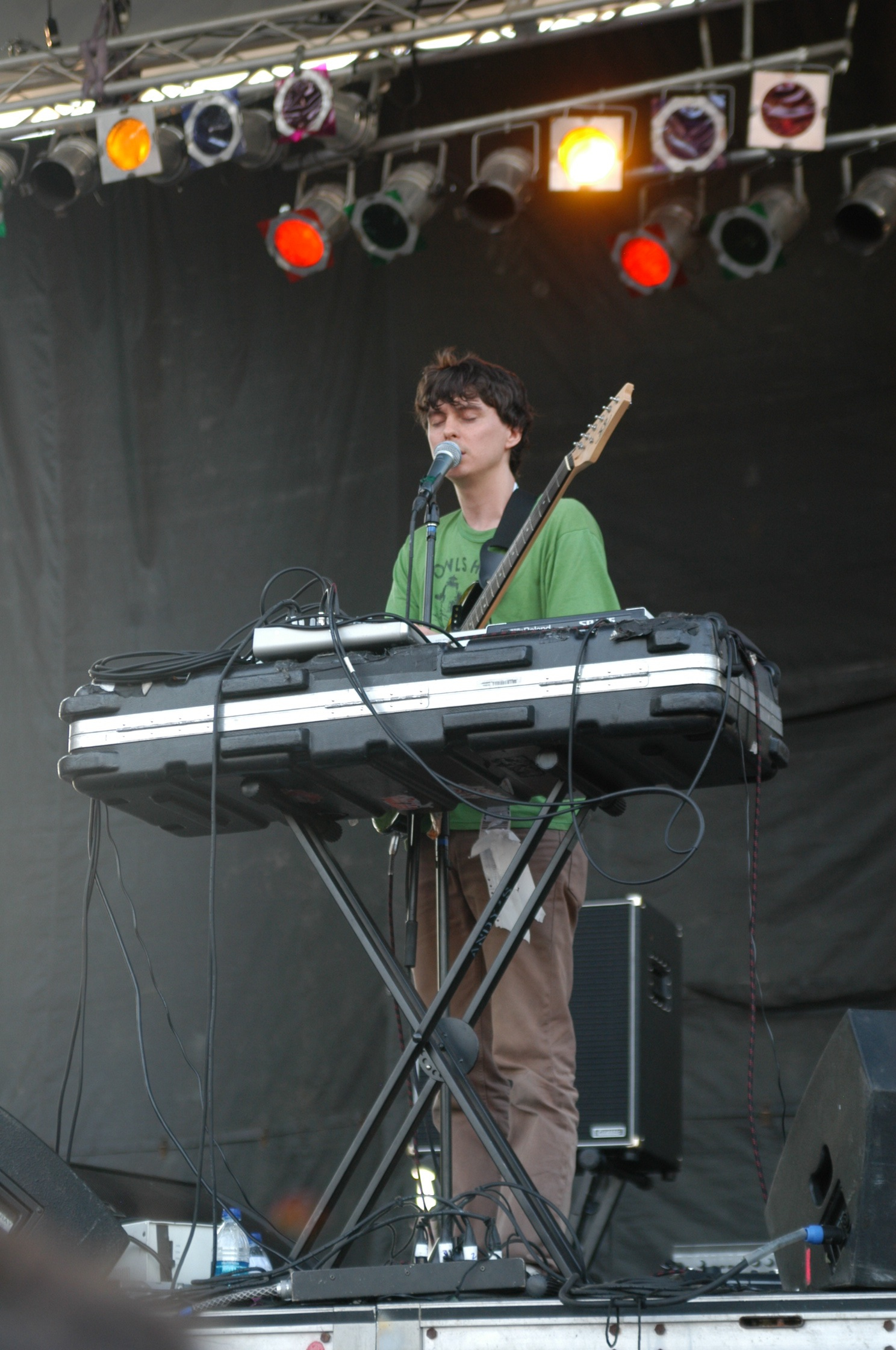 Panda Bear performs in 2010